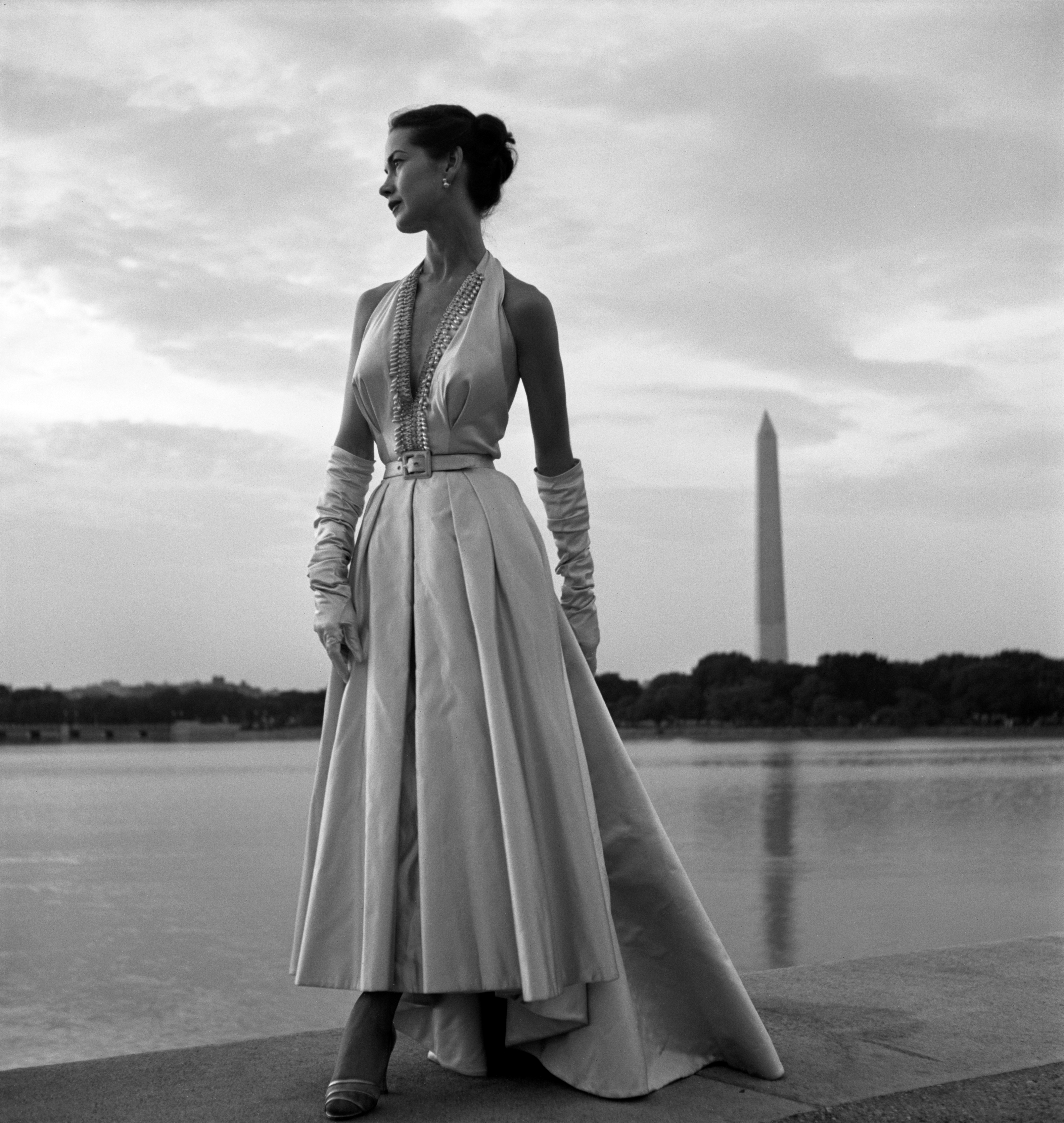 Fashion model posing in an evening gown on the steps of the Jefferson Memorial, Washington, District of Columbia, with Tidal Basin and Washington Monument in the background. Photograph by Toni Frissell From the Toni Frissell collection at the U.S. Library of Congress.